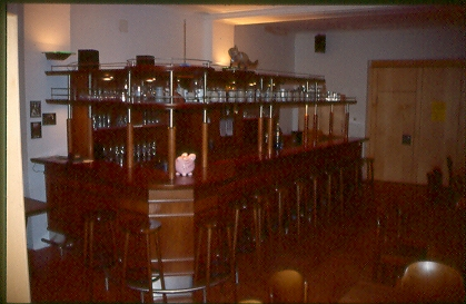 Bar in the House of the German fraternity K.S.St.V. Alemannia München